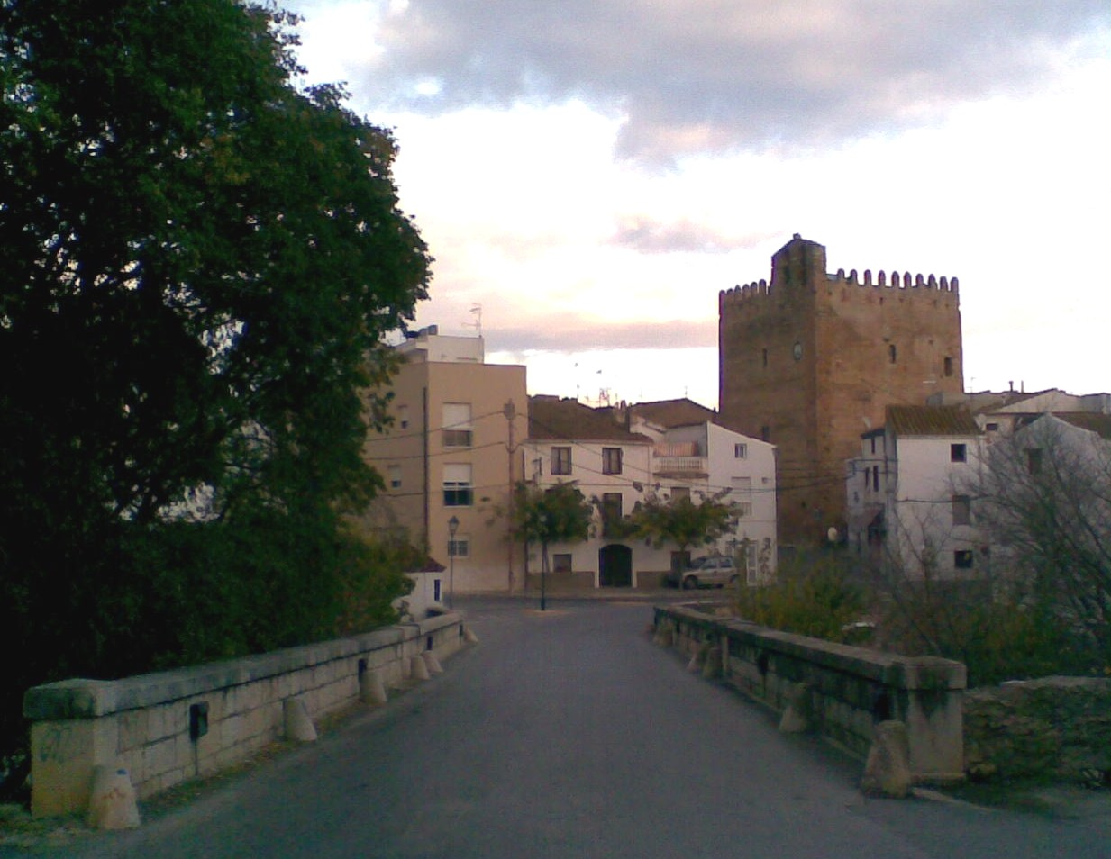 La Galera village, Montsia, Catalonia. Tower built in 1340